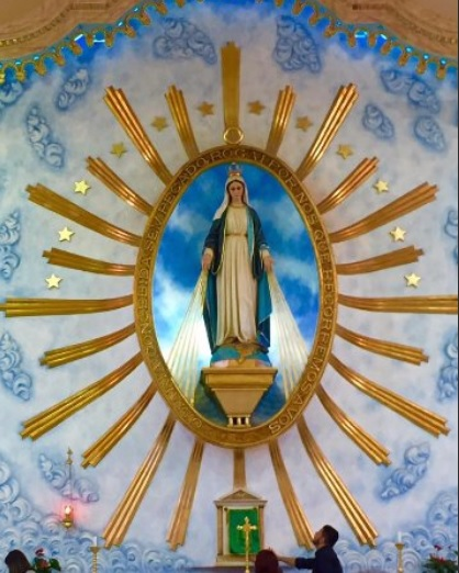 uberaba santuario medalha